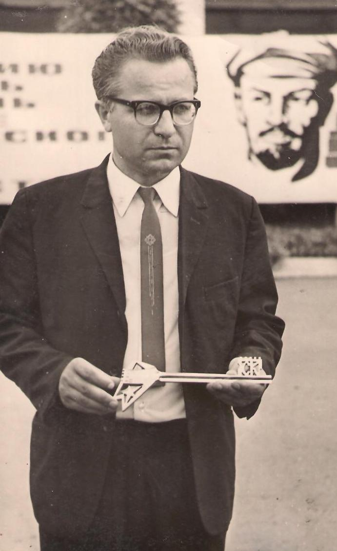 Николай Наумов, Председатель горисполкома города Ставрополя, 1967 год